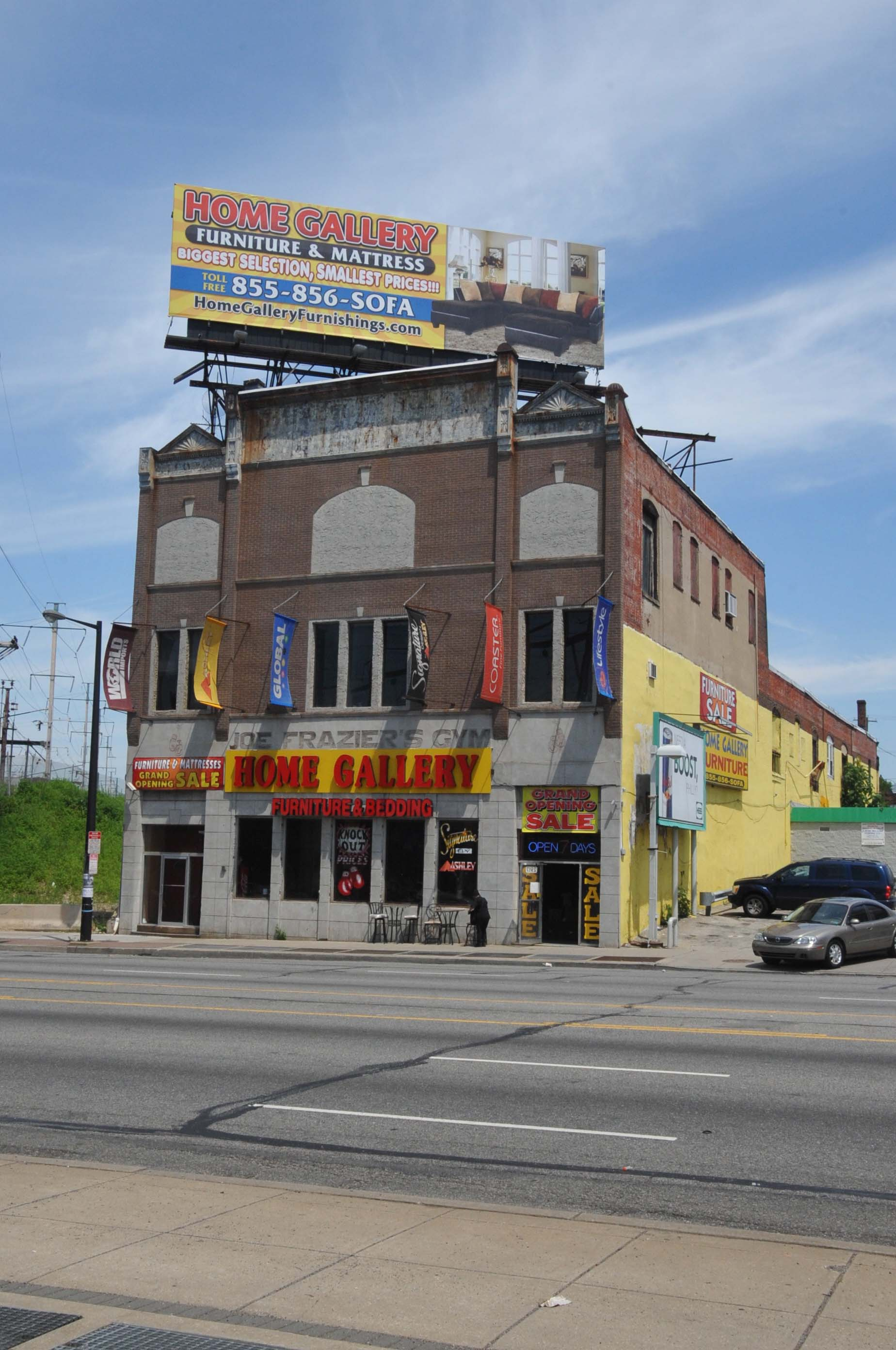 JOE FRAZIER’S GYM; PHILADELPHIA; BUIL;T IN 1895 AS A WINDOW SASH AND BLIND WAREHOUSE. IT SERVED AS THE TRAINING CENTER FOR JOE FRAZIER’S FAMOUS FIGHT FOR THE HEAVYWEIGHT CHAMPIONSHIP BOUT BETWEEN FRAZIER AND MOHAMMED ALI WHICH FRAZIER WON. AFTER HIS RETIRMENT IN 1975 FRAZIER BOUGHT THE GYM AND TRAINED SUCGH FIGHTERS AS DU,ANE BOBOCK AND TERENCE CAUTHEN.